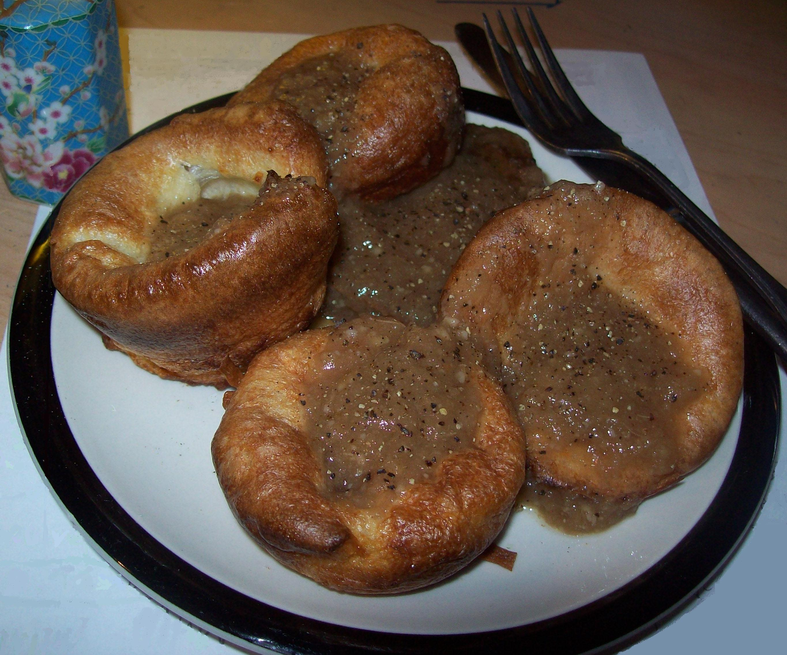 Muffin Tin Yorkshire Pudding With Gravy